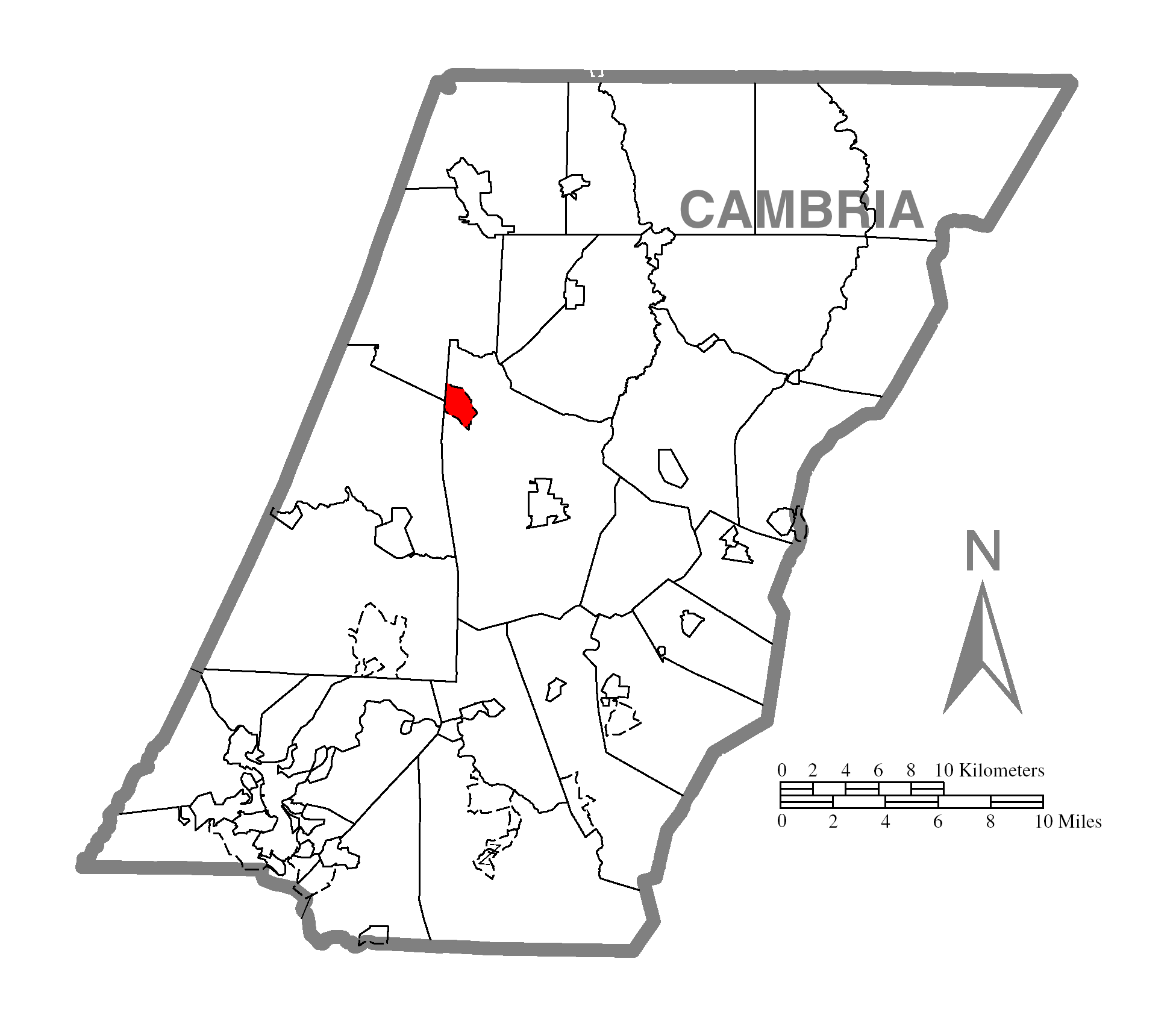 A map of Cambria County showing Colver, Pennsylvania (alternate) highlighted on the map.